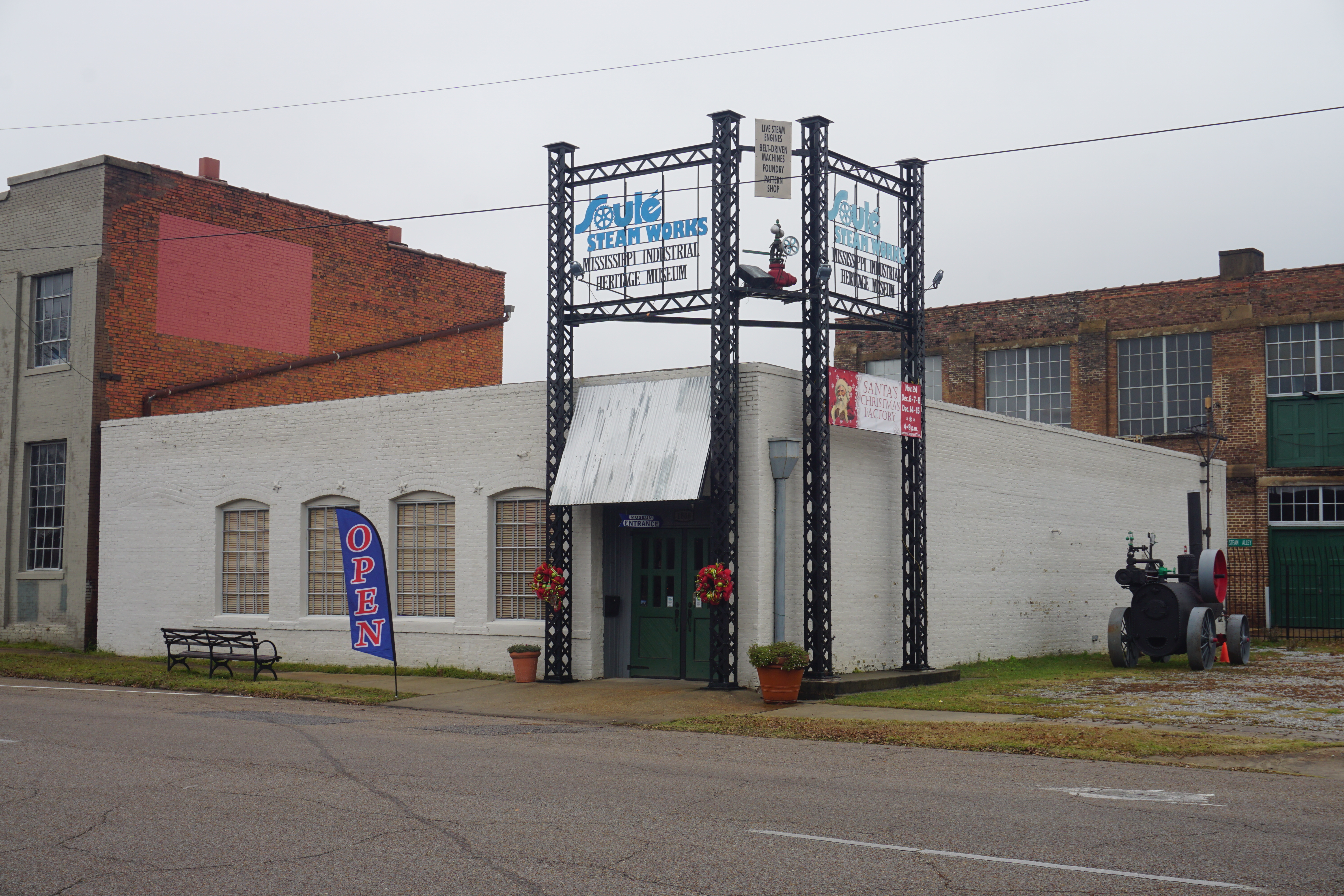 Soulé Steam Feed Works, currently the Mississippi Industrial Heritage Museum, in Meridian, Mississippi (United States).